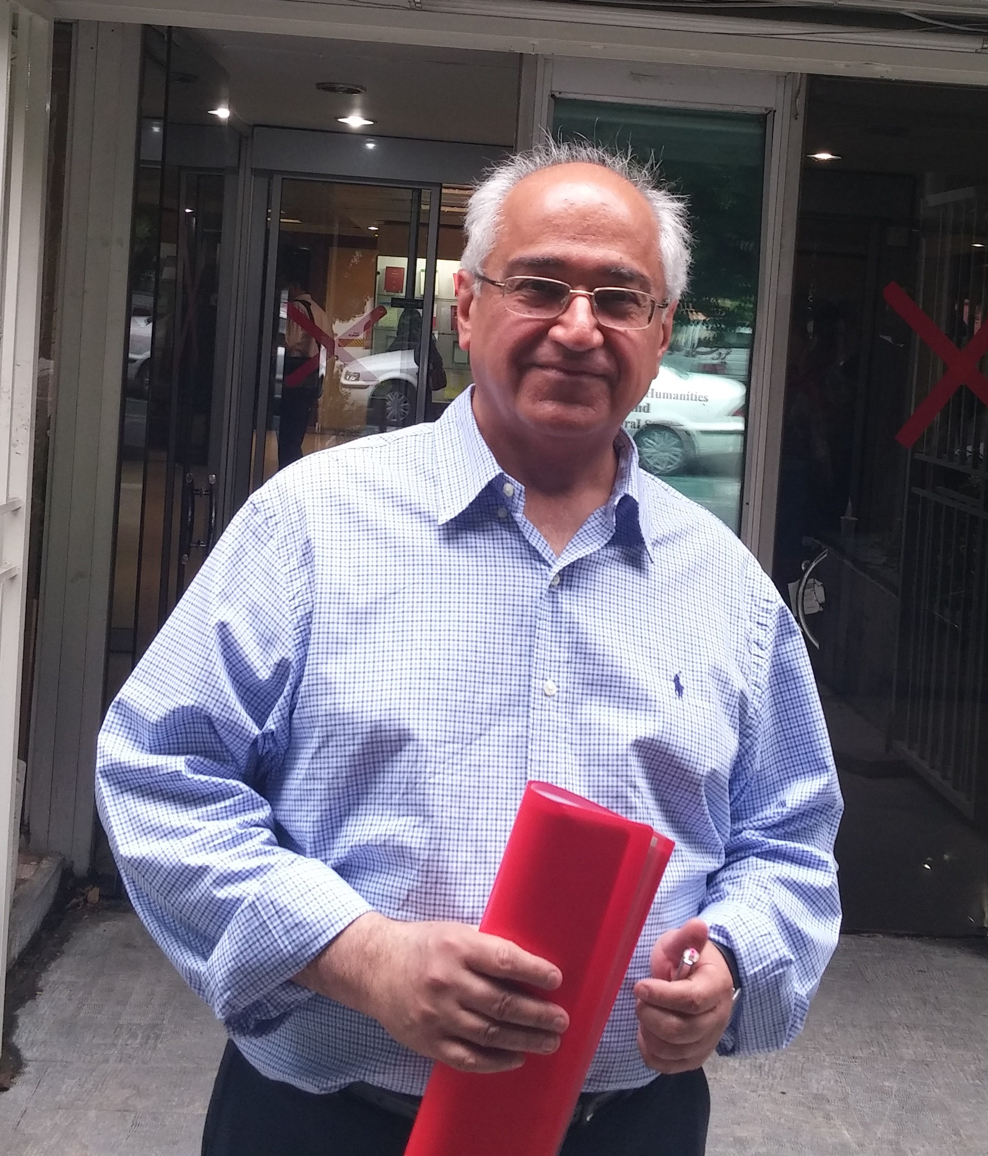 Babak Ahmadi, Iranian philosopher